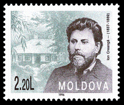 Stamp of Moldova; Description:Ion Creangă